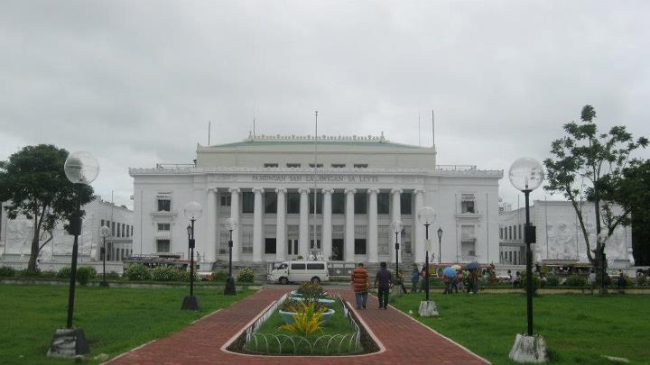 Leyte Provincial Capitol. The Capitol Building of the Philippines 1944-1945. It became the seat of Philippine Commonwealth Government from October 23, 1944 to February 27, 1945.e